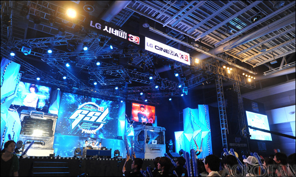 2011 GSL May Grand final